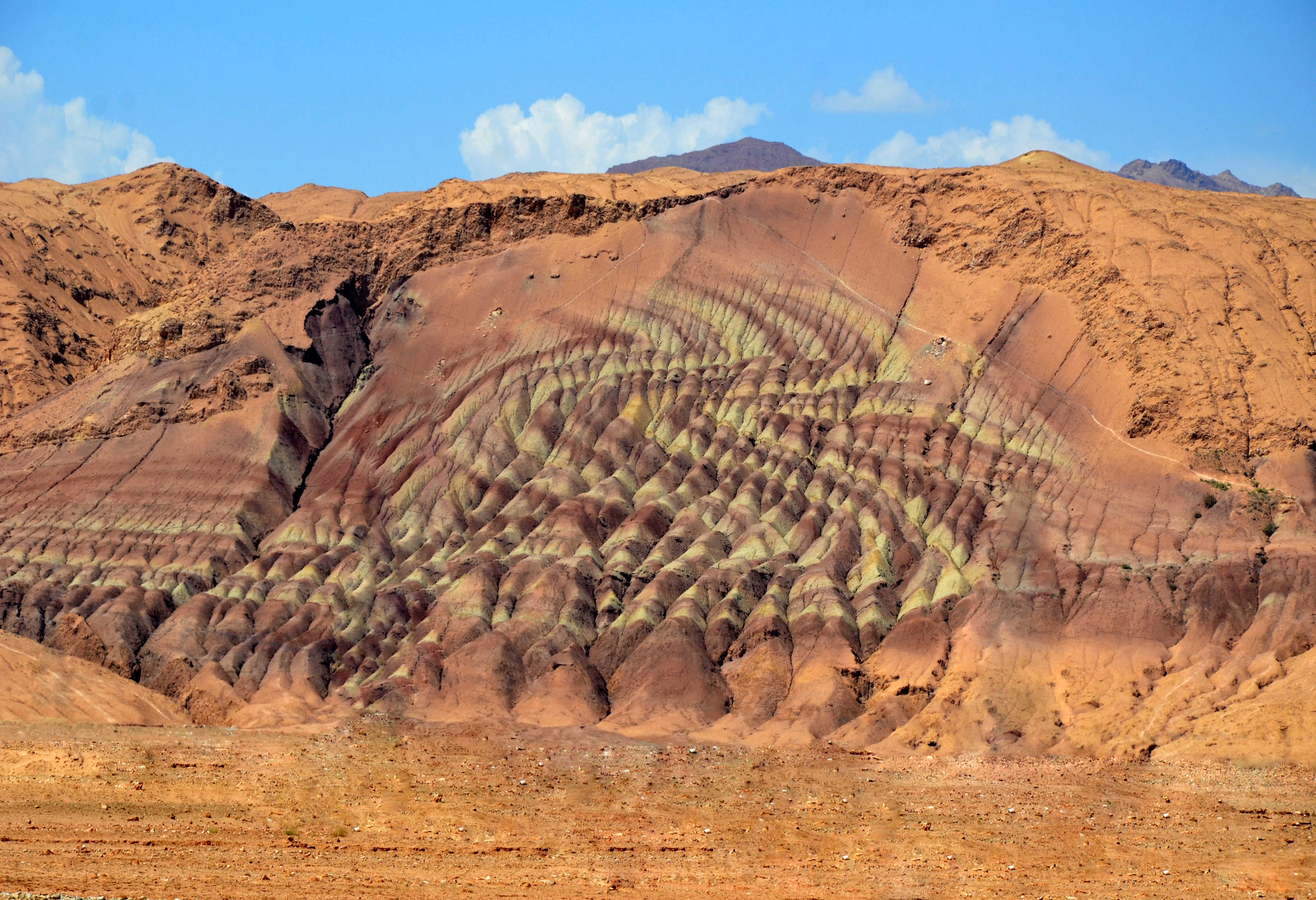 The paint of nature; Iran